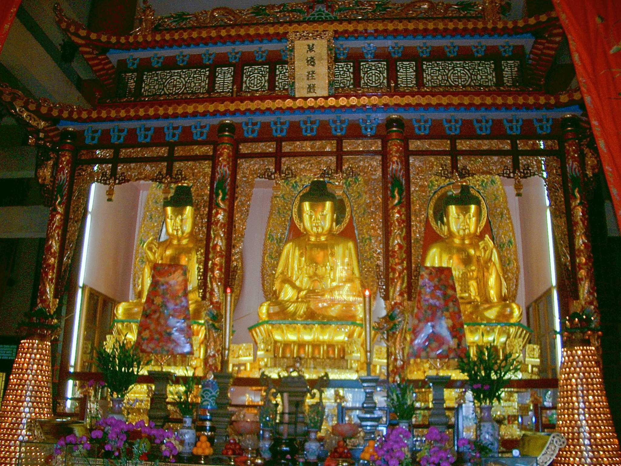 Buddhist Statues, Chuk Lam Sim Monastery, Fu Yung Shan, Tsuen Wan, Hong Kong